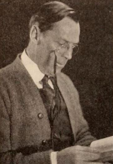 American director Thomas N. Heffron (1872 – 1951), on page 54 of the January 17, 1920 Exhibitors Herald.